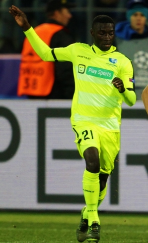 Nana Asare